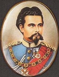 King Ludwig II. of Bavaria Popular depiction by Carl Theodor von Piloty († 1886)